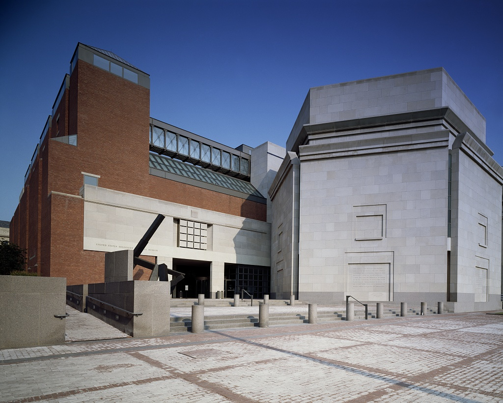 The United States Holocaust Memorial Museum located in Washington, D.C.